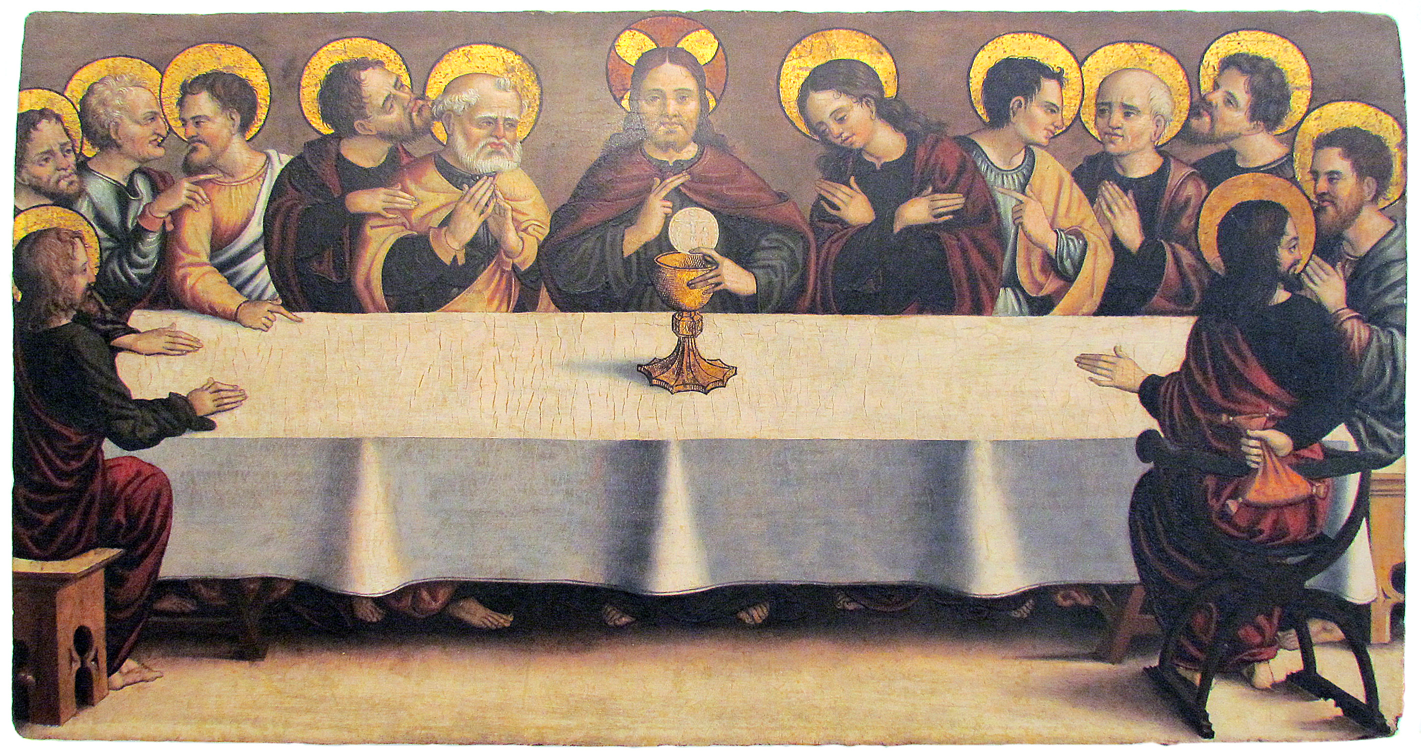 The Last Supper by Johannes De Matta